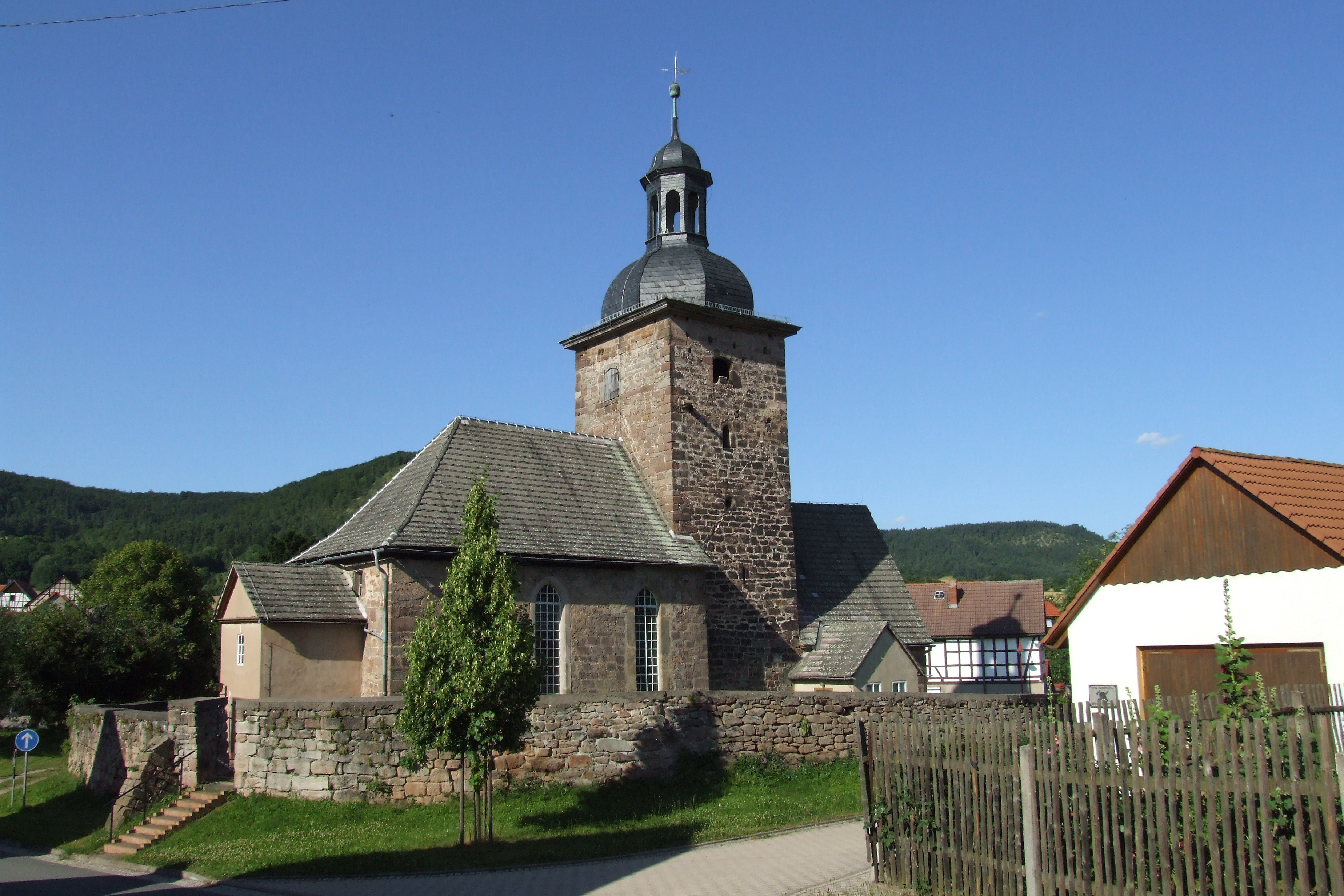 Church Heilingen